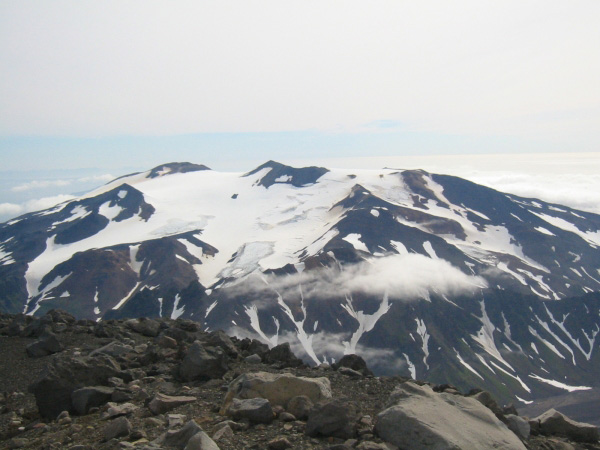 Takawangha volcano, as seen from the summit of East Tanaga (looking east).